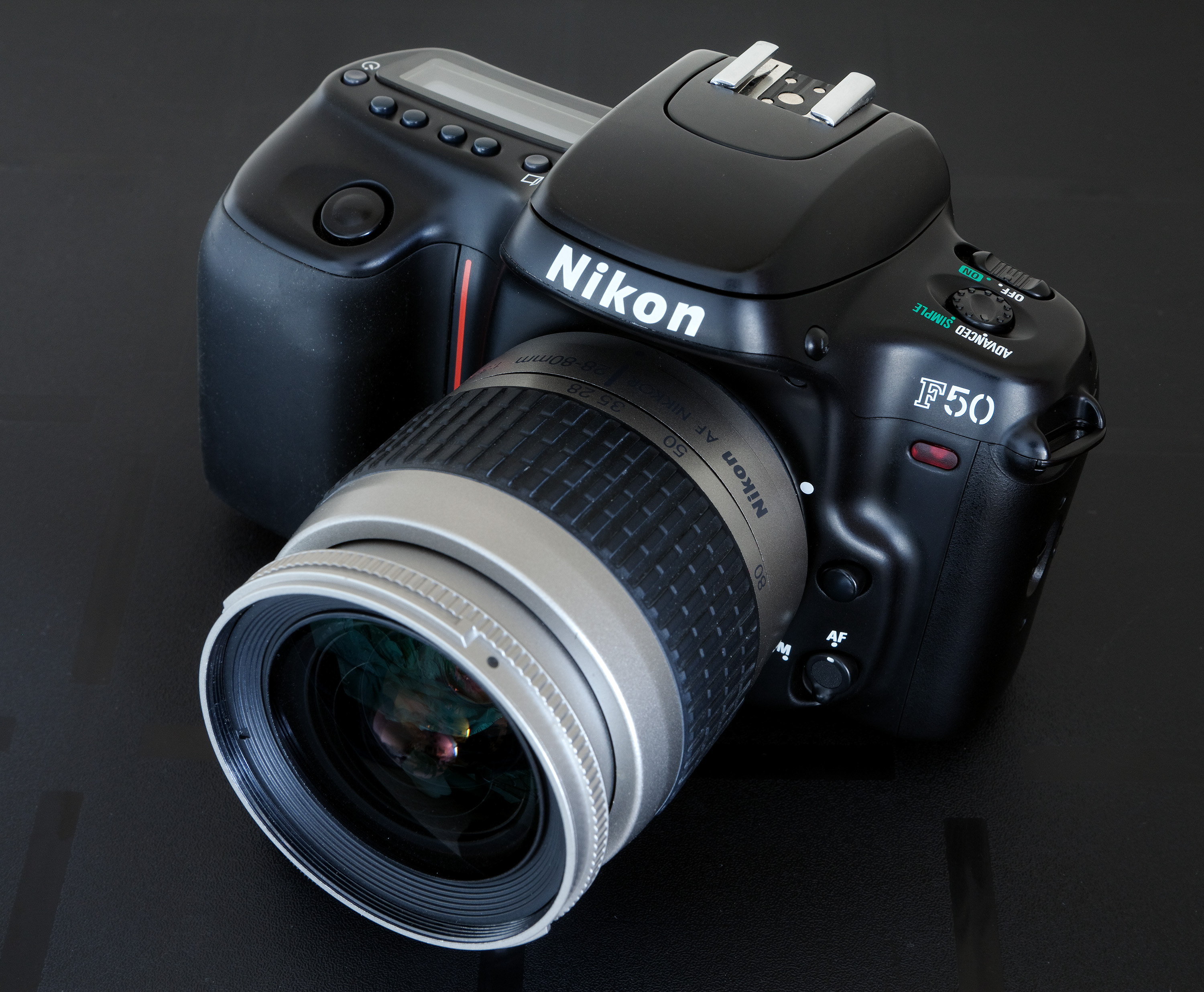 A Nikon F50 fitted with a Nikon 28-80mm f/3.3-5.6G.